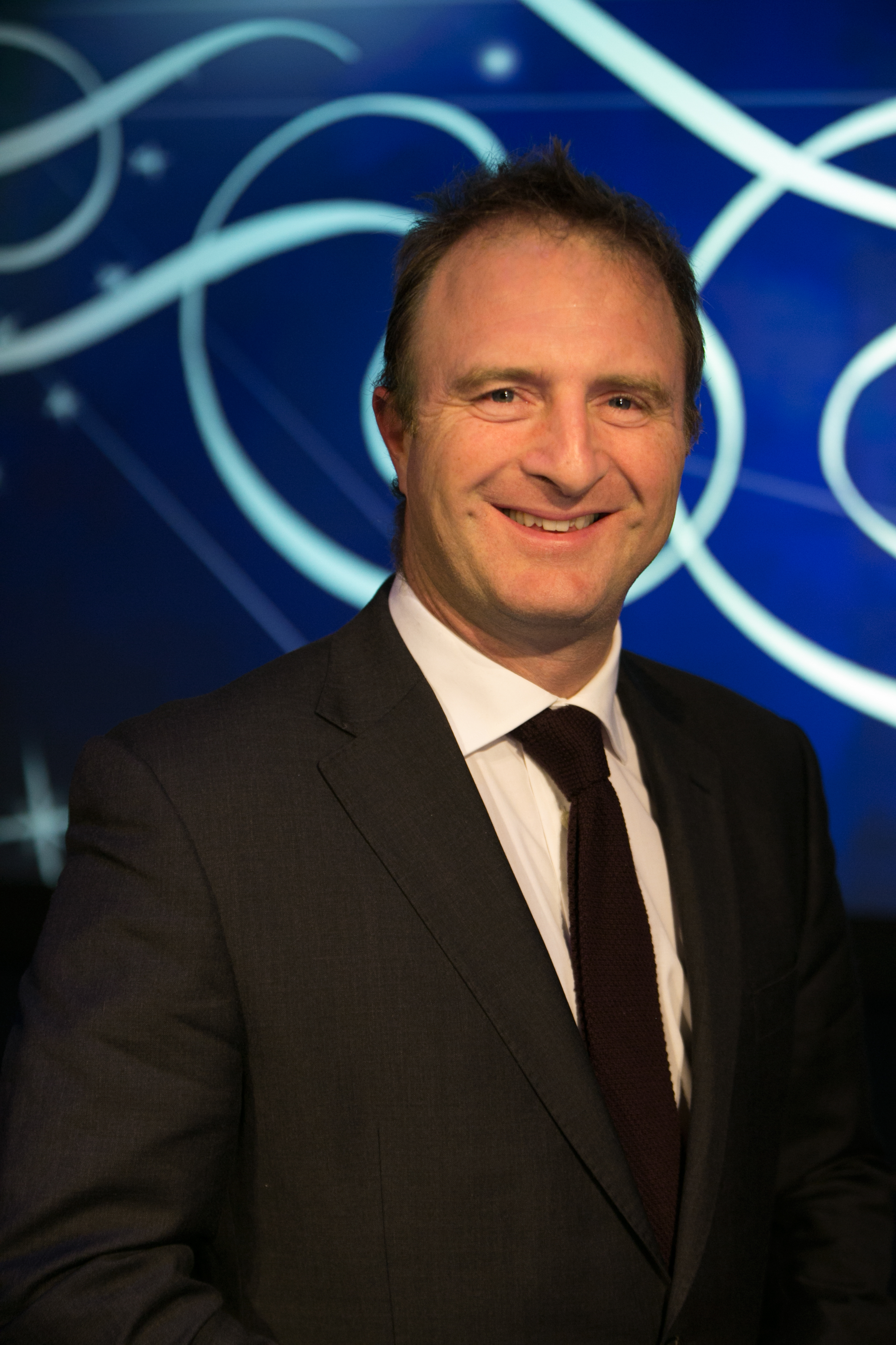 British journalist and editor James Harding at the 2014 Swedish Grand Journalism Prize Awards.